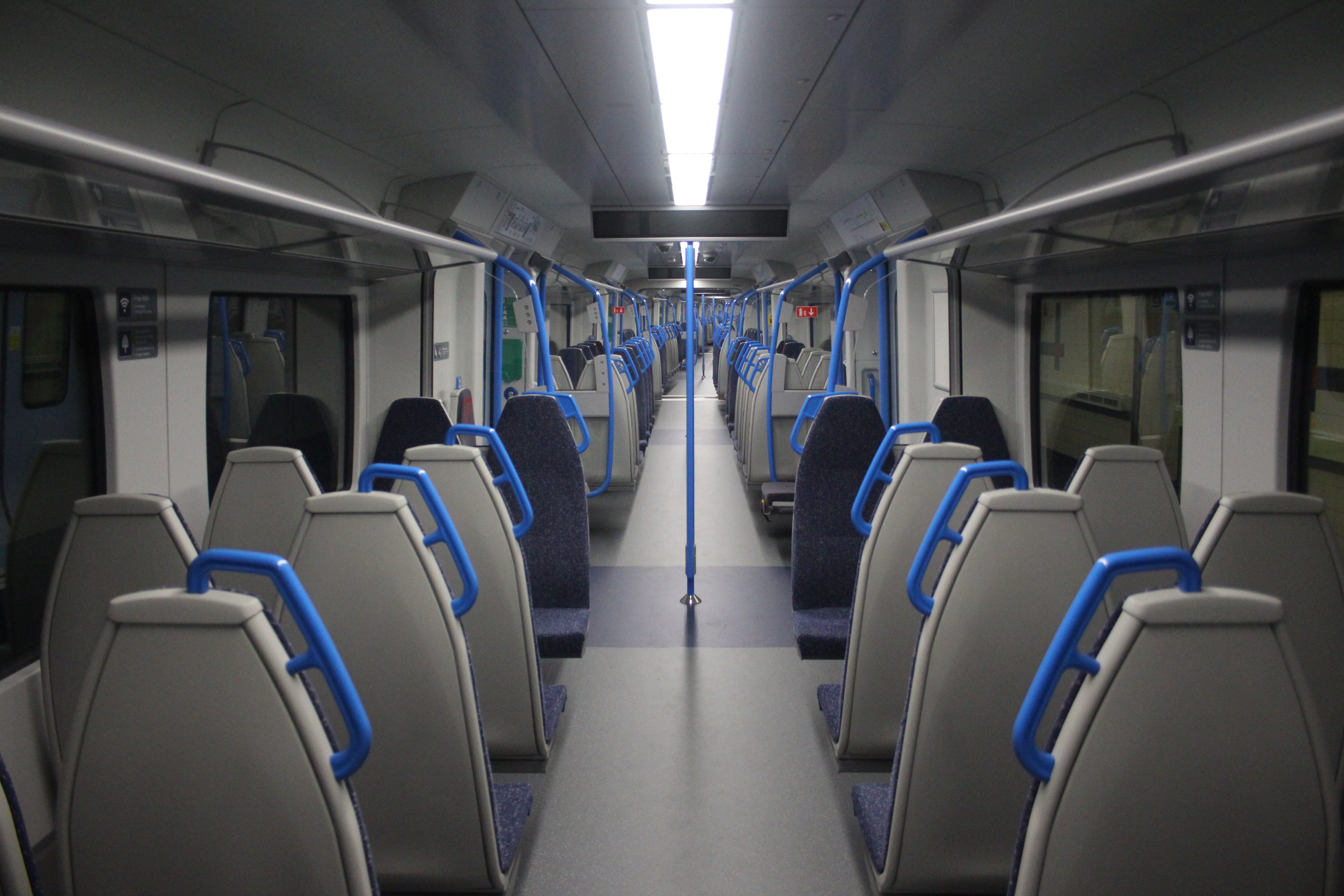 GTR's Class 717 unit number 717003 interior in standard class. Similar to the Class 700 interior, with just different seat covers for priority seats, among other very minor changes.